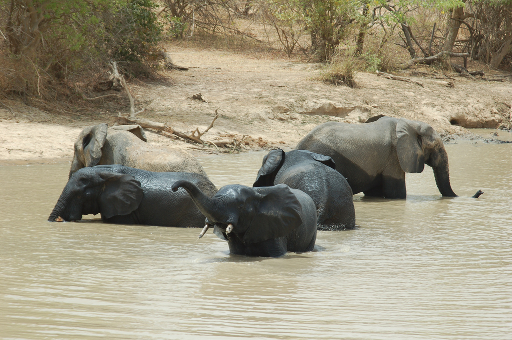 Elephants photographed in the Niger section of the Parc W du Niger complex of protected areas. Given the size a topography, this is likely a smaller river, not the Niger itself